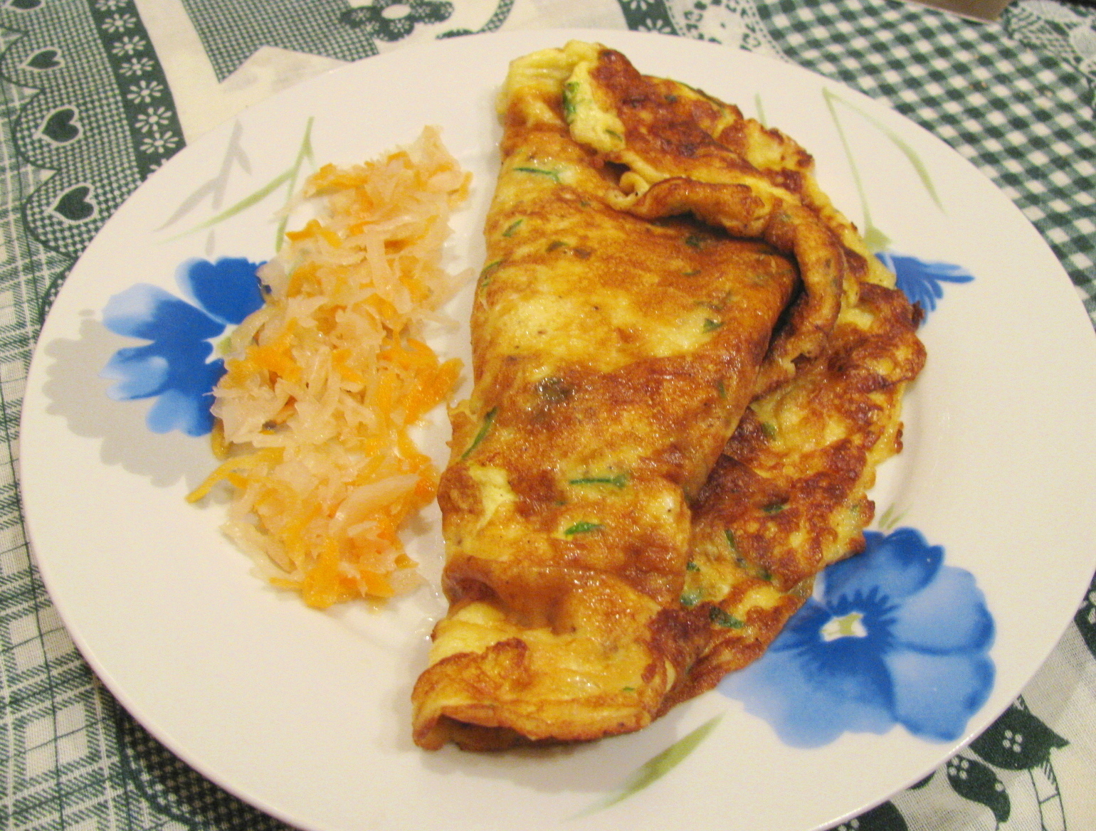 omelette served with sauerkraut salad